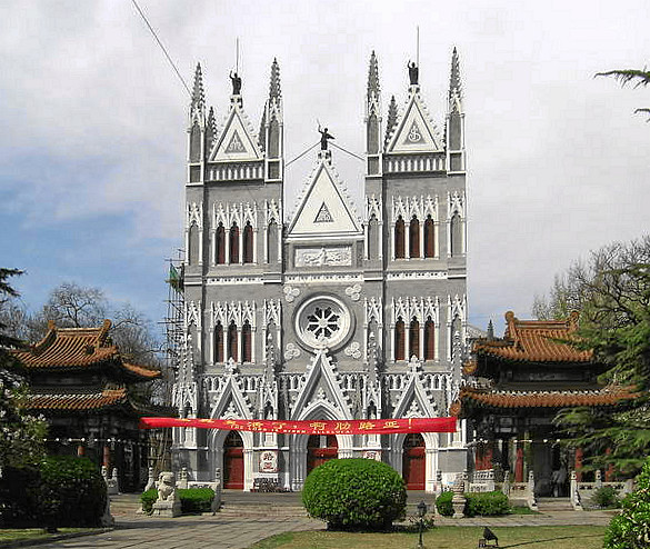 Xishiku Church. The banner reads: "The Lord is risen , Alleluia!"